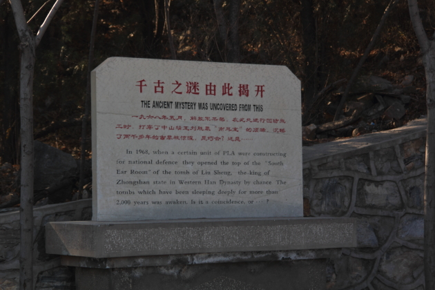 Mancheng Han tombs discovery information